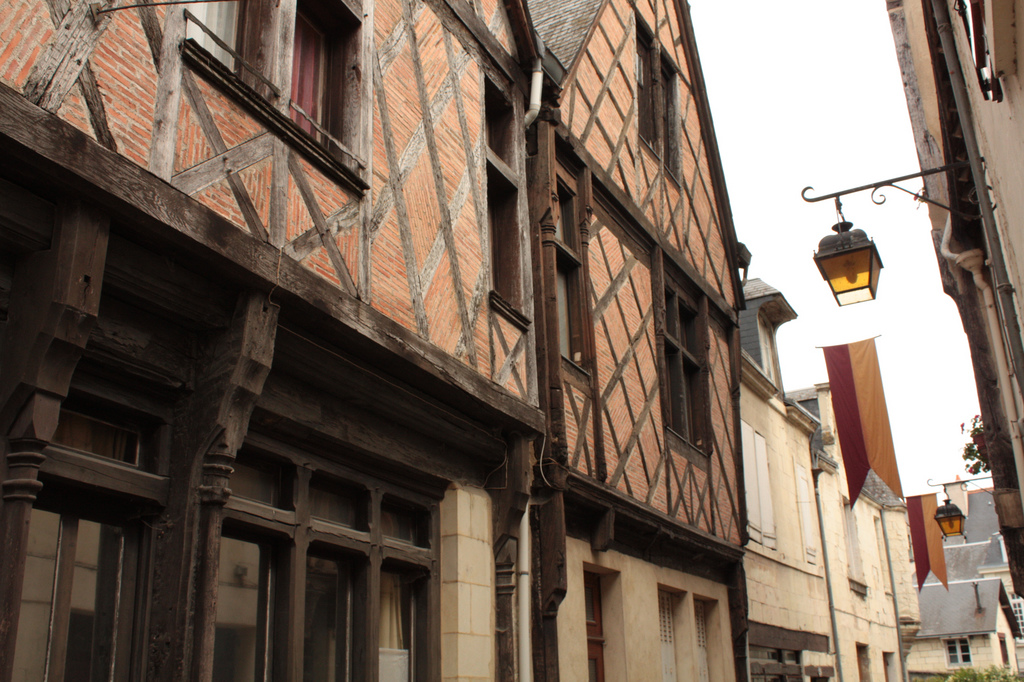 Streets of Chinon, France.